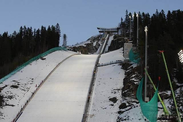 Vikersundbakken during FIS Ski-Flying World Championships 2012 in Vikersund